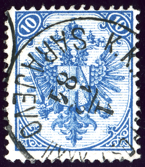 Stamp of Bosnia-Herzegovina, first (lithographed) issue 1879, 10 kreuzer, cancelled K.K. MILIT.POST XXXII SARAJEVO in 1884.